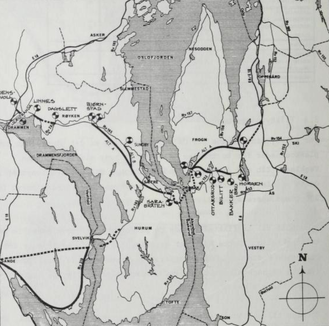 Map of a proposed Oslofjord Tunnel and Oslofjord Link showing various alternatives from a 1982 report.